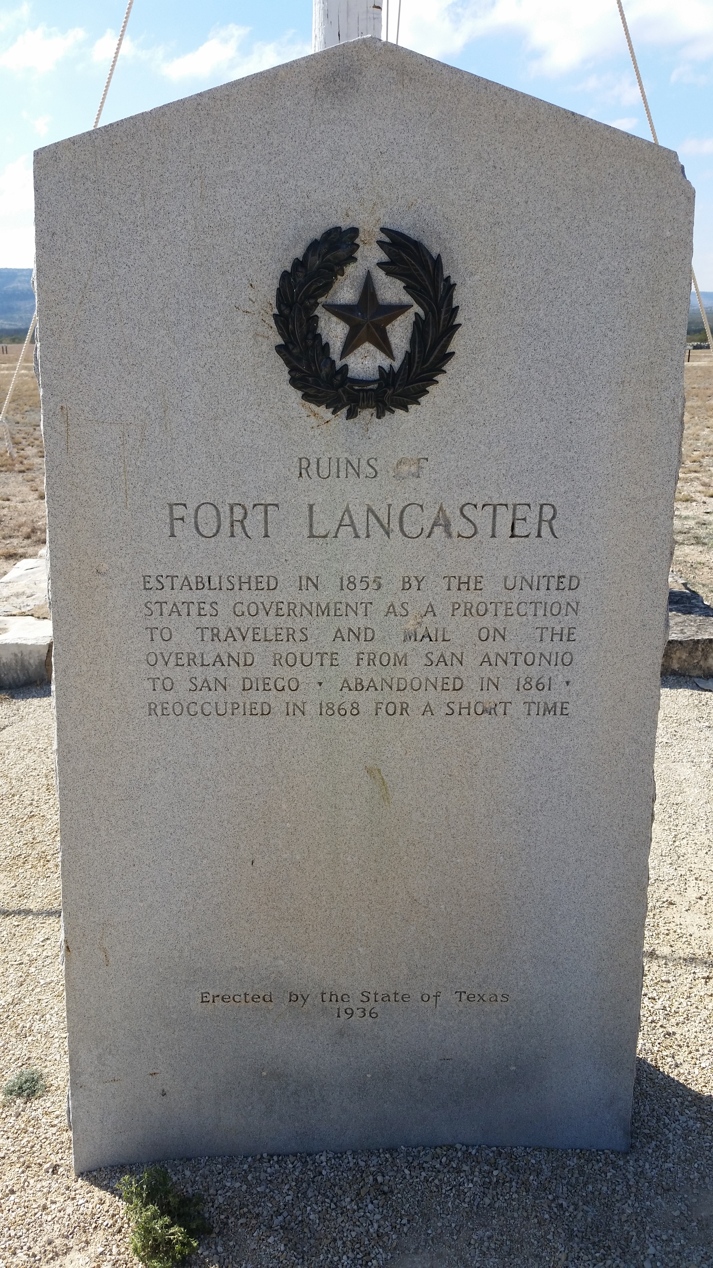 Fort Lancaster Texas Historical Marker